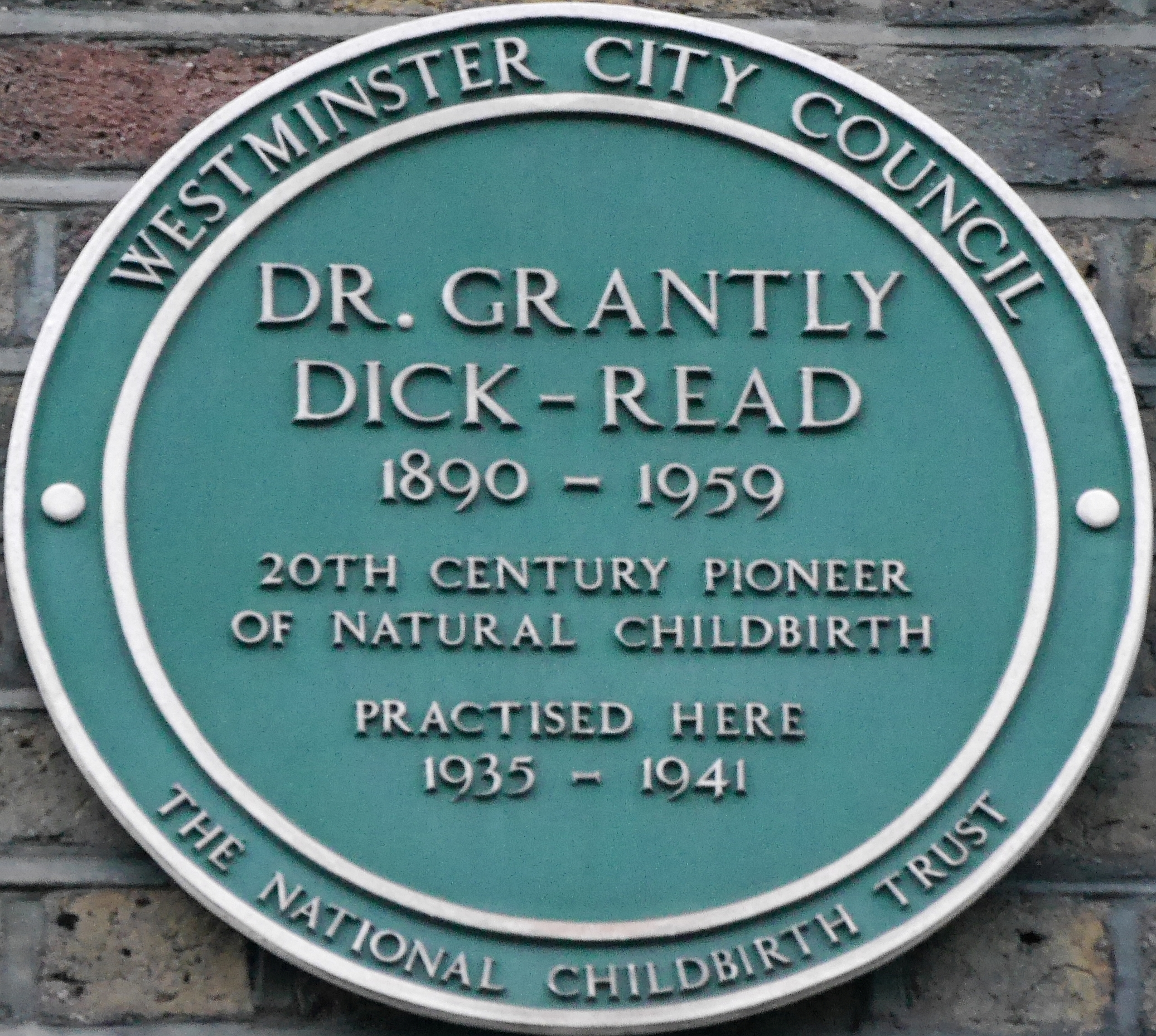 Grantly Dick-Read Harley Street blue plaque